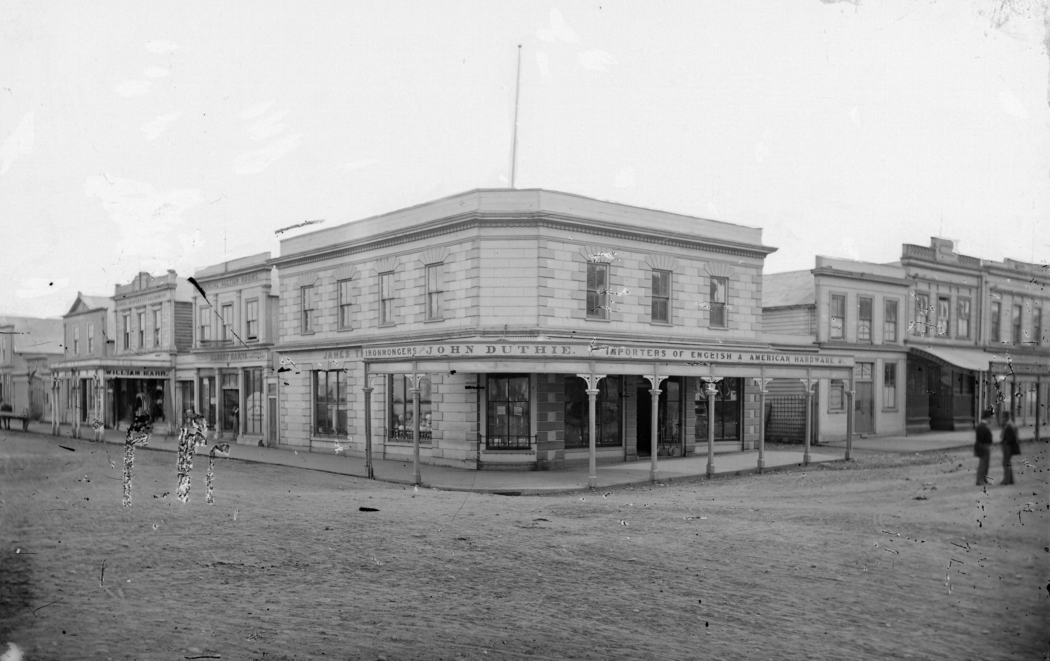 John Duthie's shop in Wanganui, "ironmonger and importer of English and American hardware". Corner of Victoria Avenue and Taupo Quay.